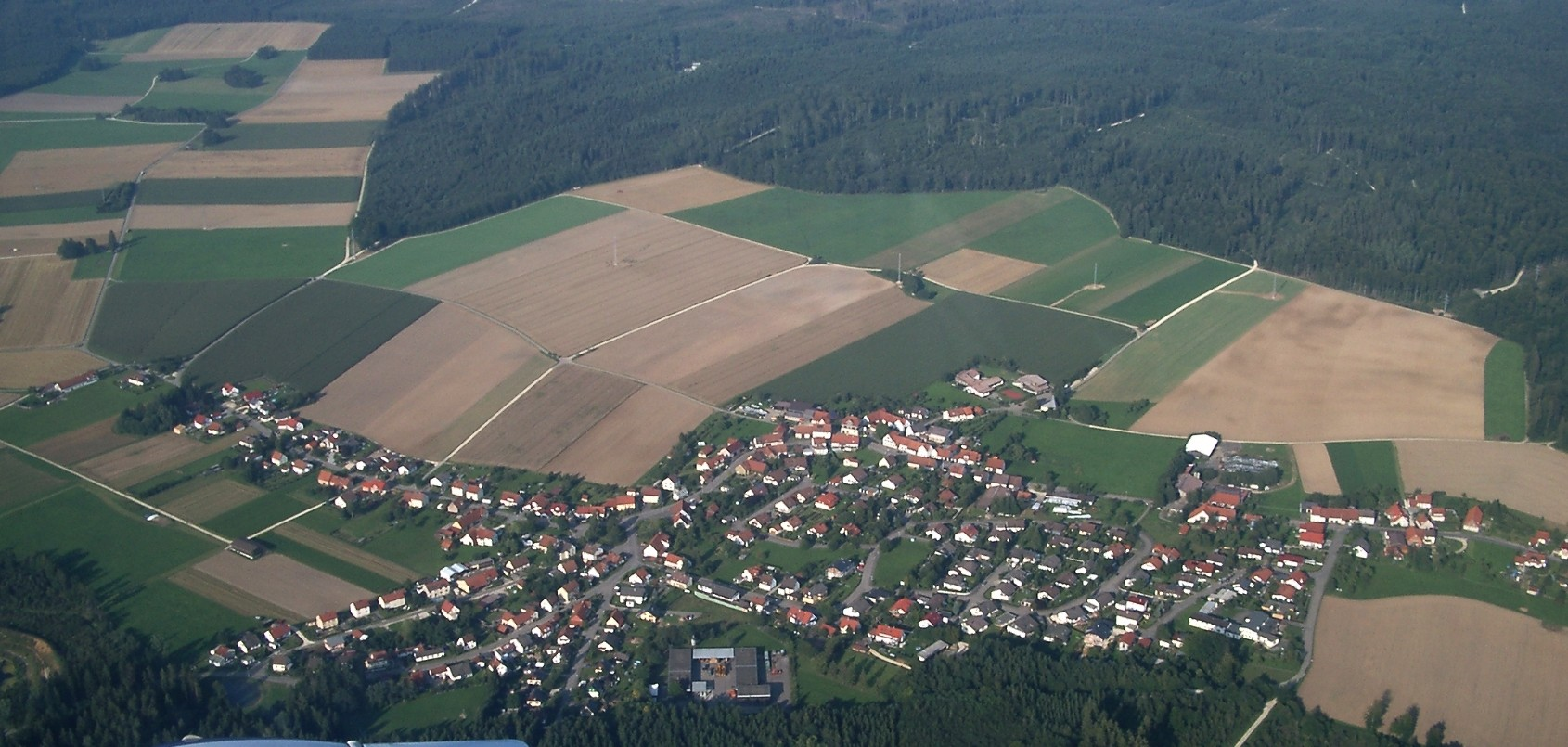 Aerial image of Ochsenberg 2005